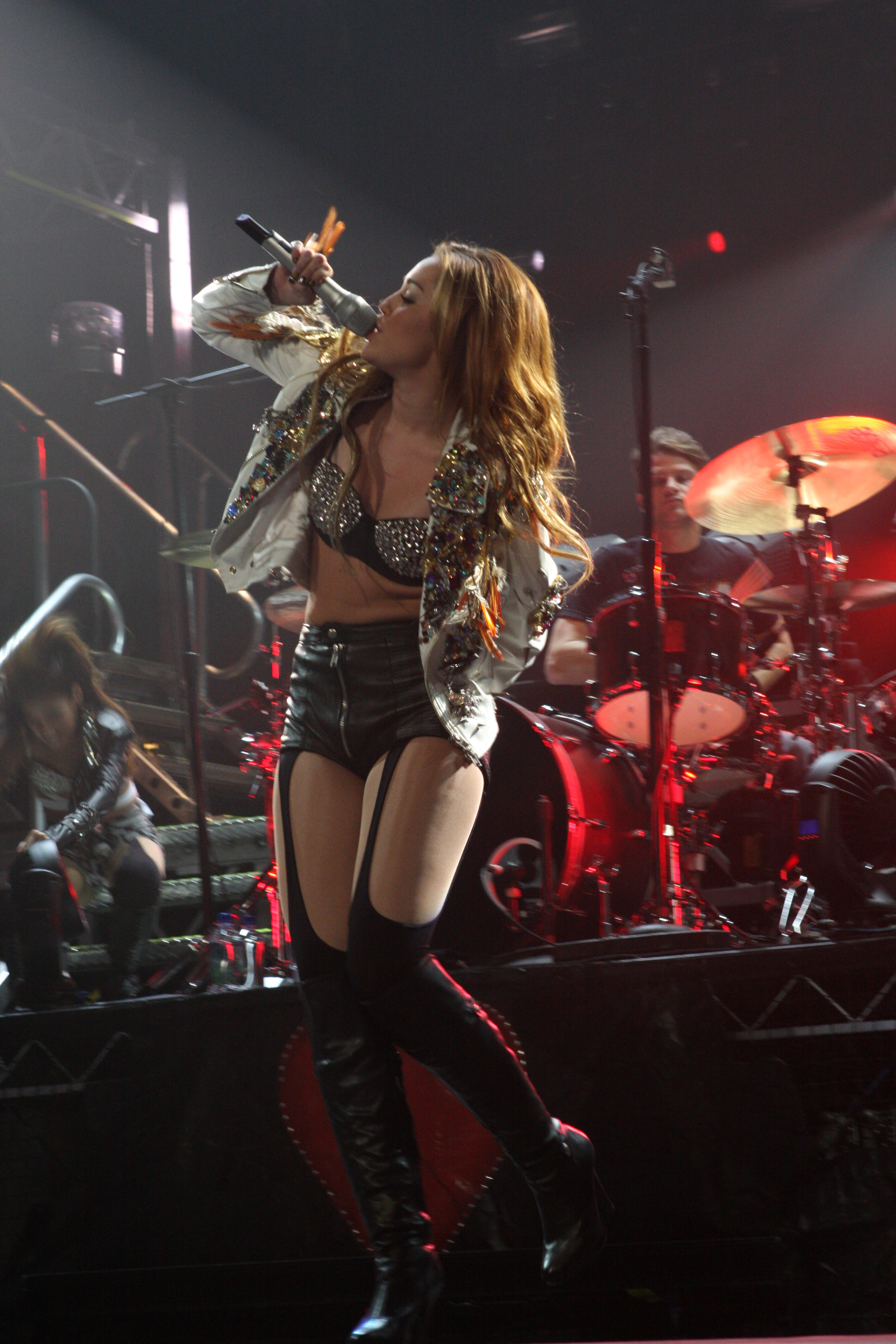 Pop singer Miley Cyrus performing in Sydney, Australia as part of her Gypsy Heart Tour.